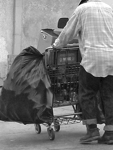 Homeless person, with shopping cart